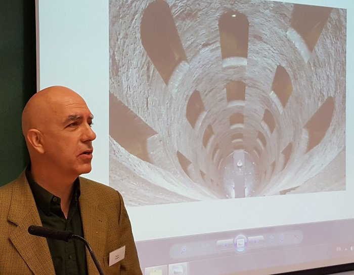 Professor Paolo Taviani at The 31st Irish Conference of medievalists (Maynooth 2017)